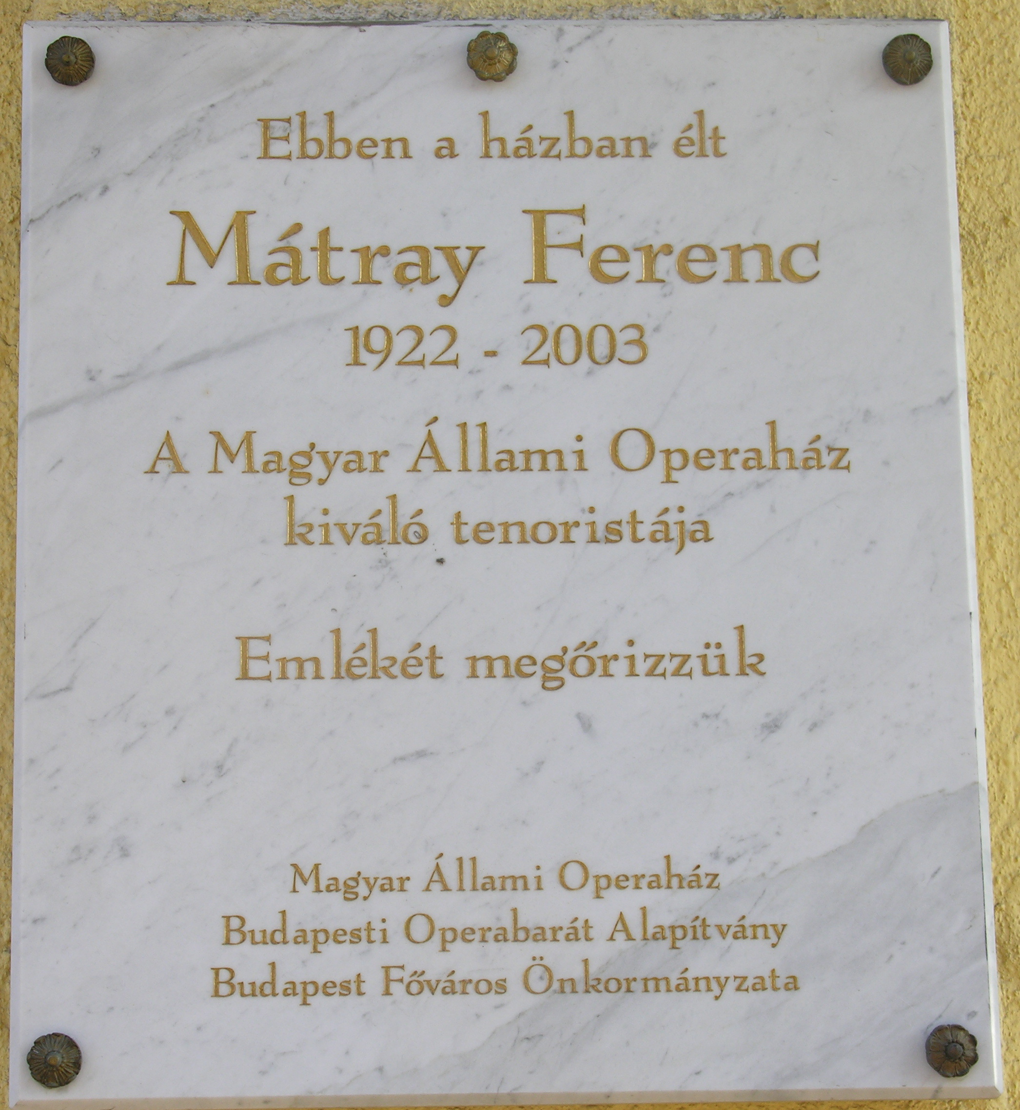 Commemorative plaque of Ferenc Mátray in Budapest District II, Retek Street No 33-35